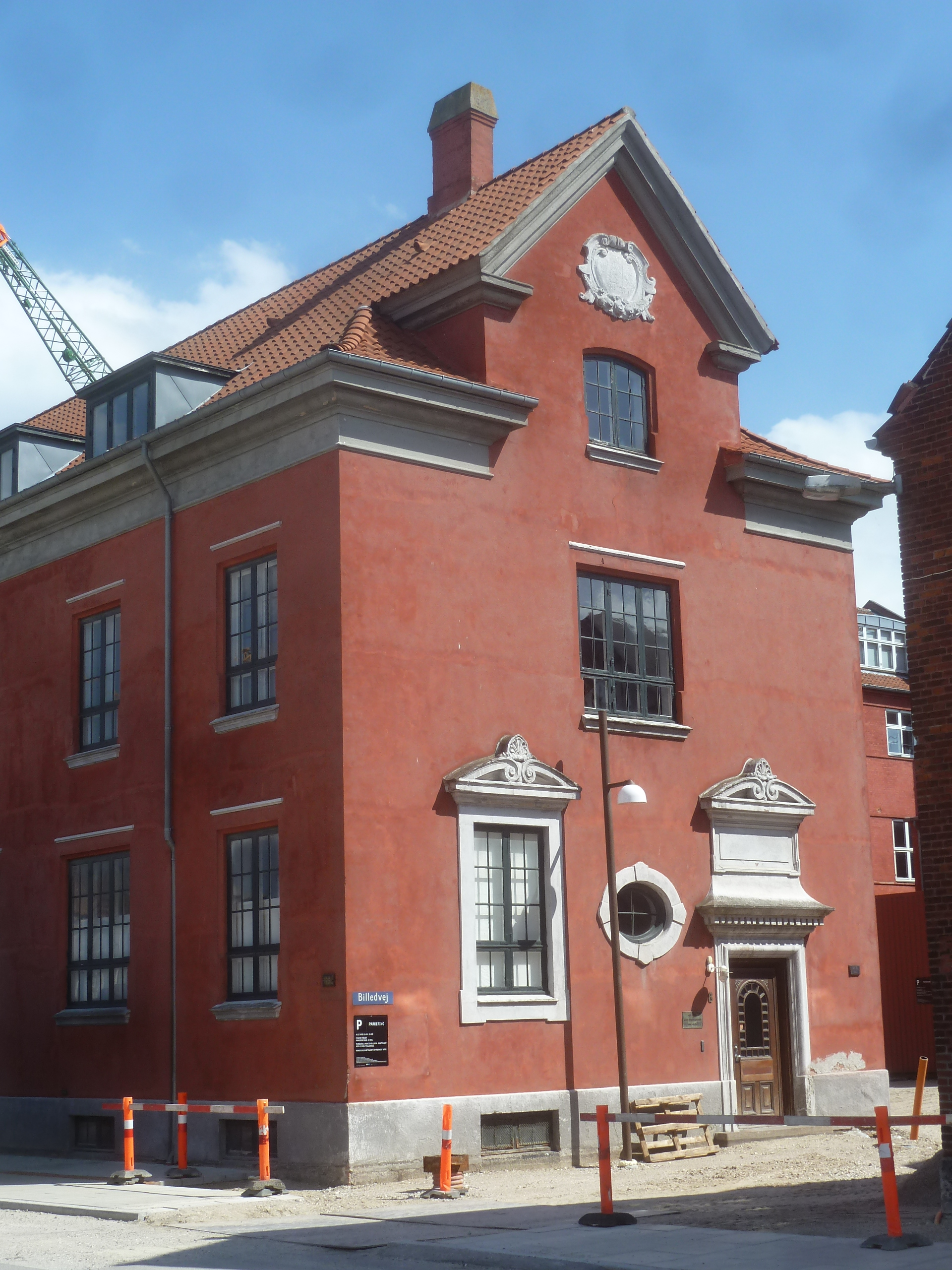 Building on the corner of Århusgade and Billedvej (No. 8) in the Bordhavn district of Copenhagen, Denmark. It was originally built for Russisk Handelskompagni in 1918 and later used by Riffelsyndikatet.